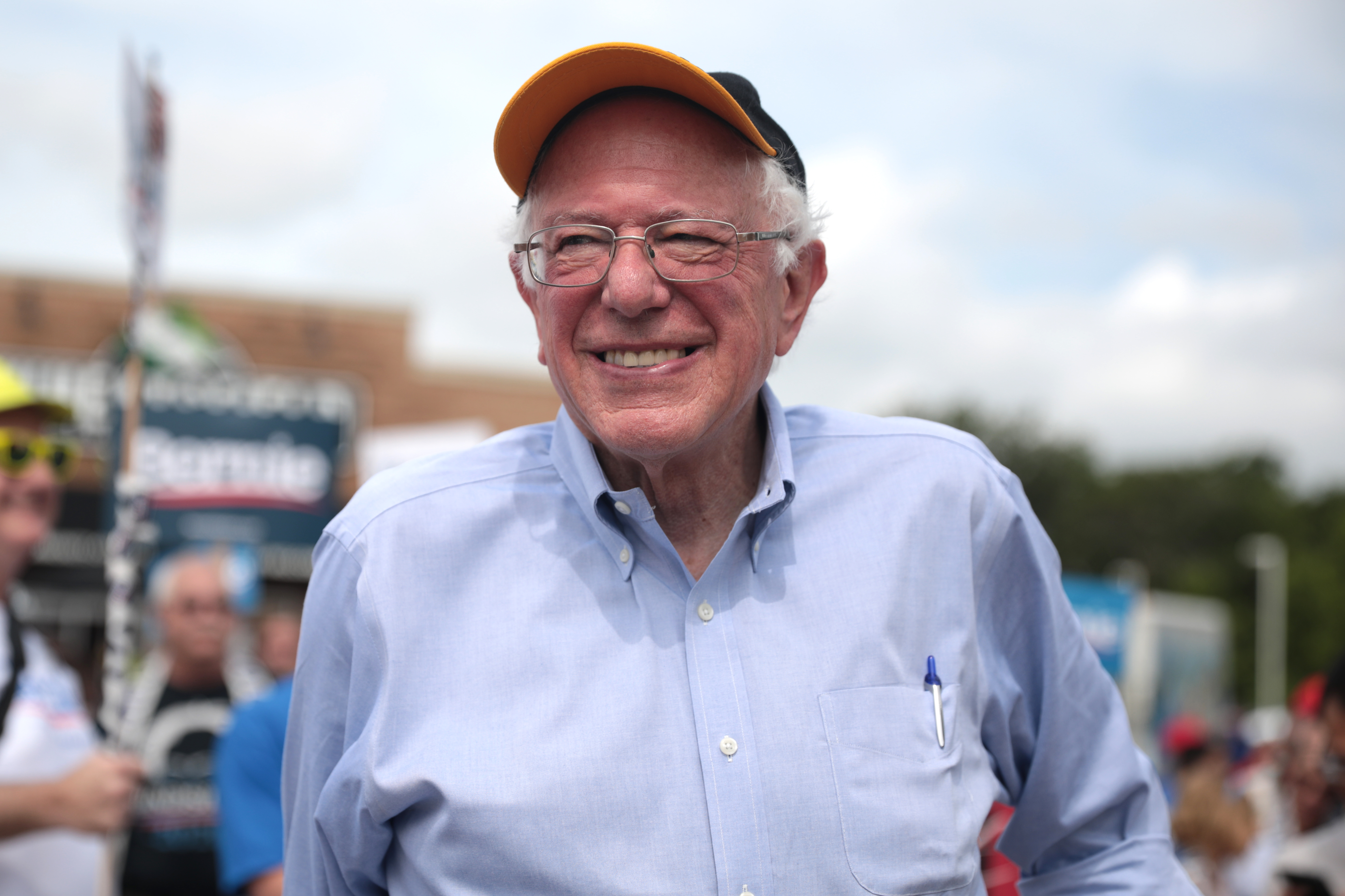 U.S. Senator Bernie Sanders walking in the Independence Day parade with supporters in Ames, Iowa.